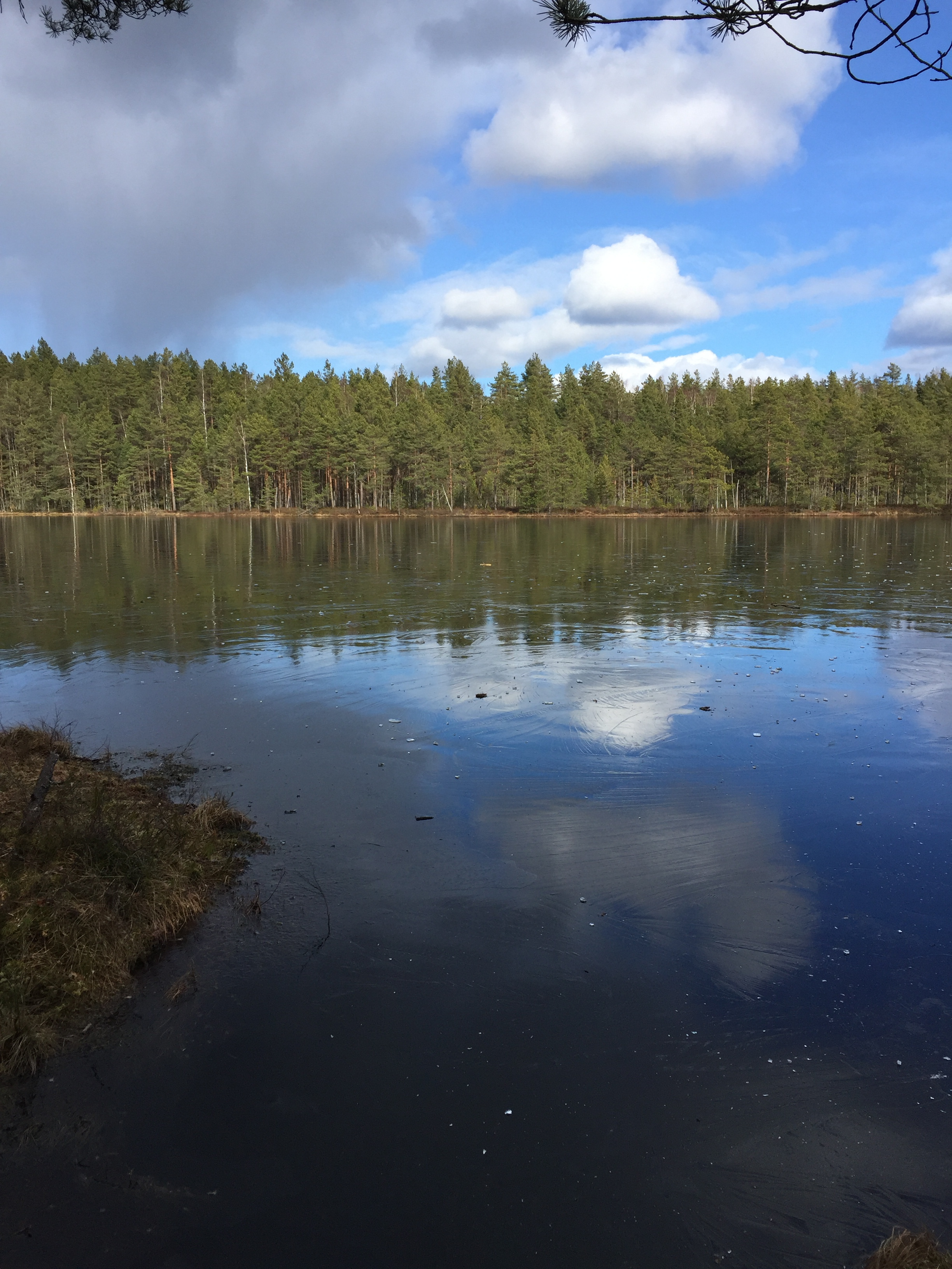 Picture of a lake.